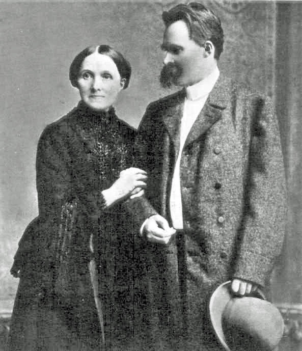 Friedrich Nietzsche and his mother.